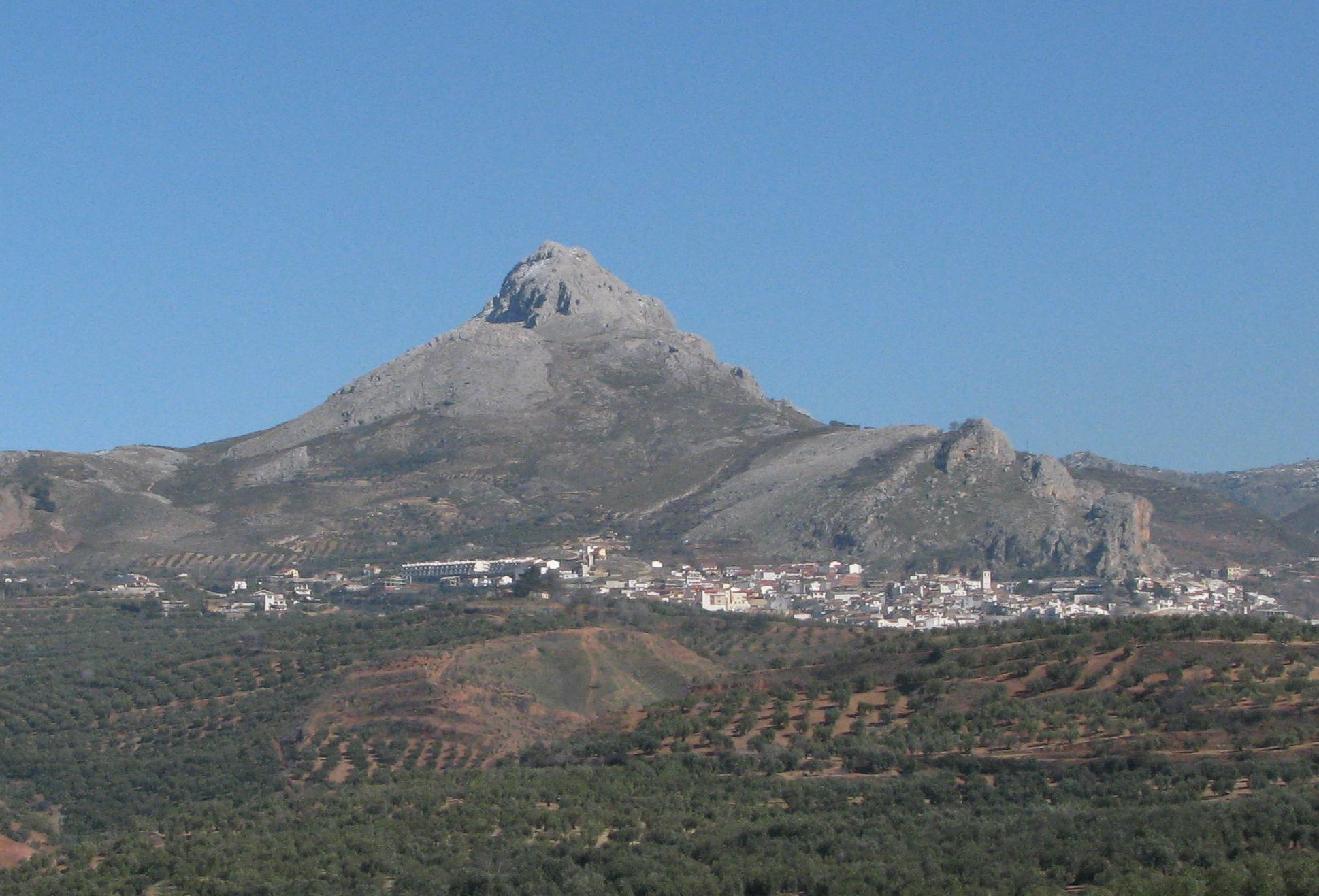 Cogollos Vega, Granada and Peñón de la Mata (1.668 m.; 5471 feet).